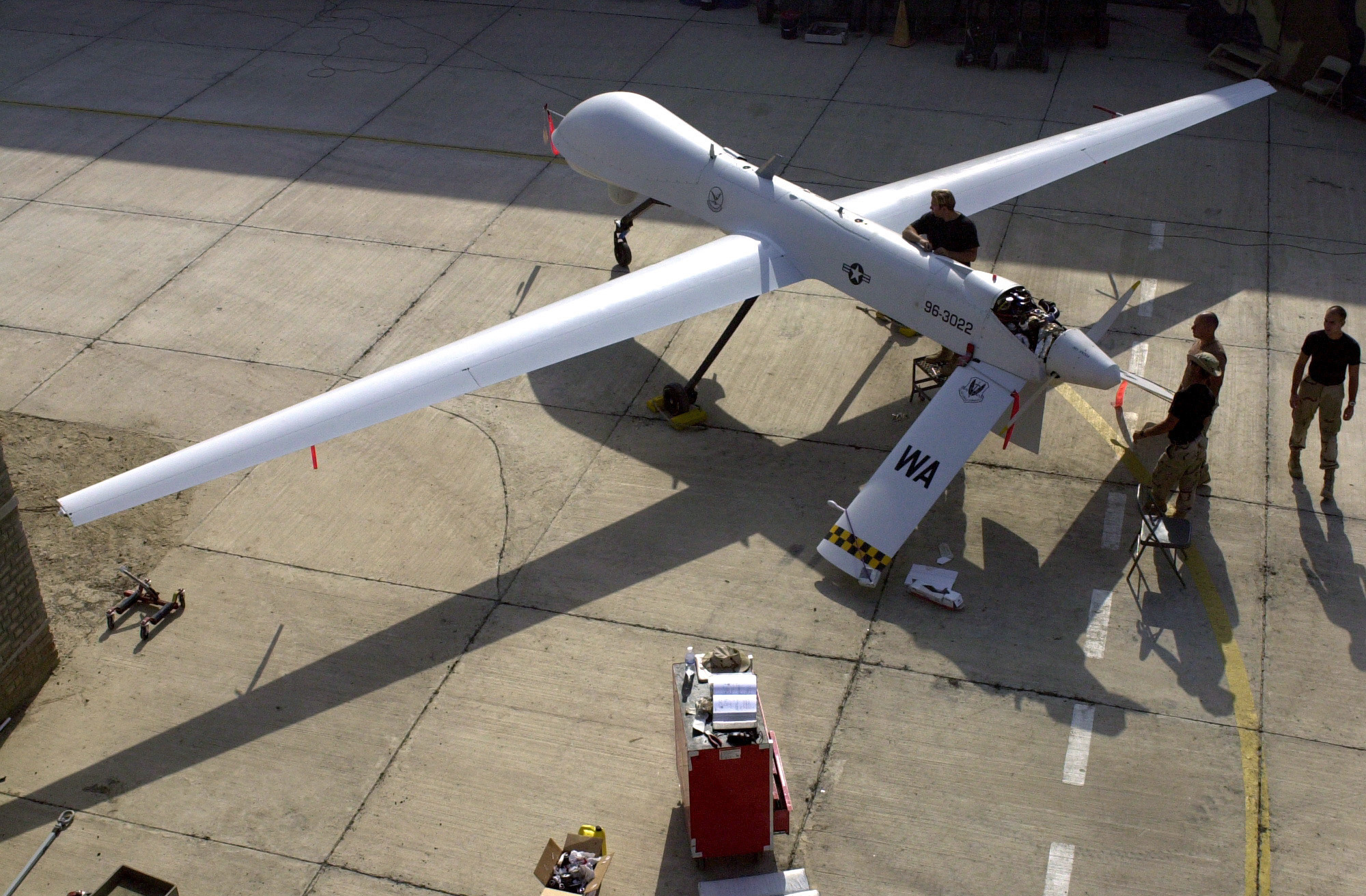 Operation Enduring Freedom (Nov. 9, 2001) -- Members of the 11th Reconnaissance Squadron, Indian Springs, Nev., perform pre-flight checks on the Predator prior to a mission. The 11th are deployed to perform maintenance on the aircraft in support of Operation Enduring Freedom. U.S. Air Force photo by Tech. Sgt. Scott Reed. (RELEASED)